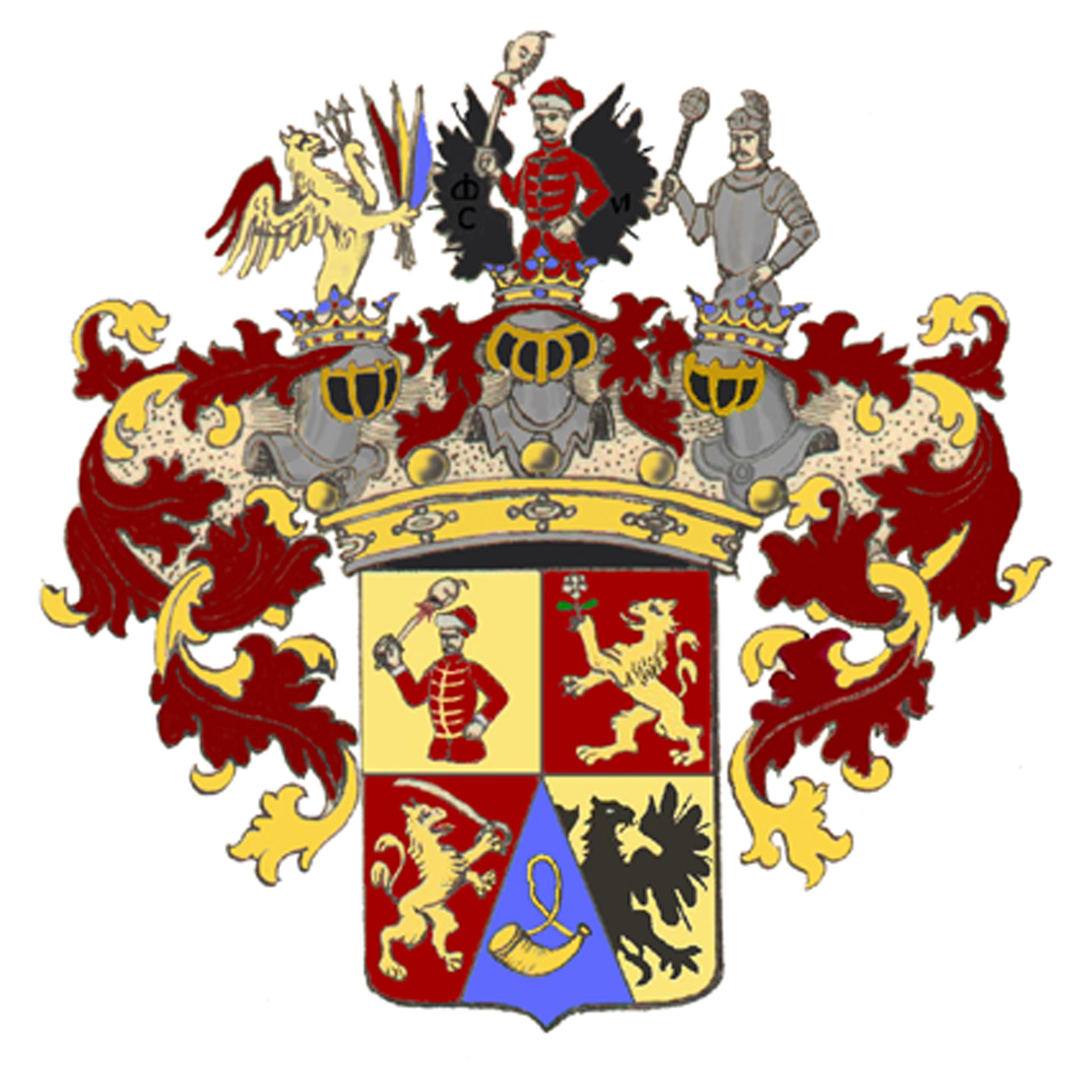 Coat of arms of the Orczy family